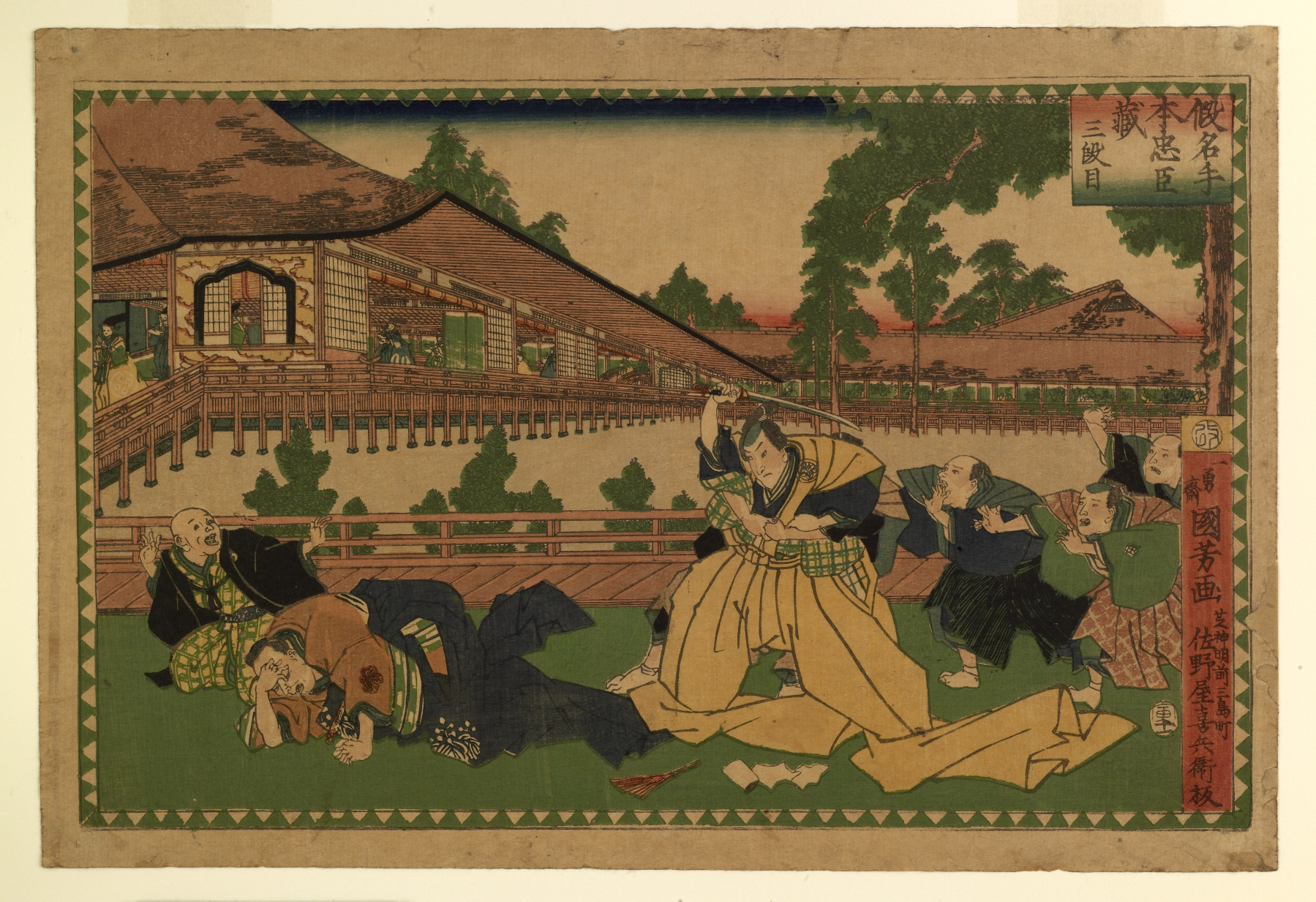 The evil Moronao continues to insult Lord Enya Hangan. "Supposing I meant what I said, what would you do about it?" "Just this," cries Hangan, slashing Moronao between the eyebrows with his sword. A retainer rushes in, grabbing Hangan from behind and restraining him.